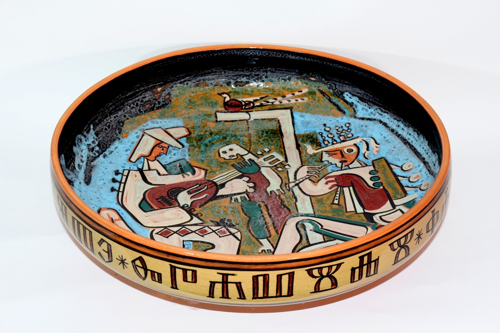 Josip Cmrok -Native musicans on the way to death - croatian academic sculptor and ceramic artist